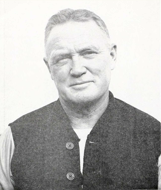 Photograph of football coach Harold D. Drew